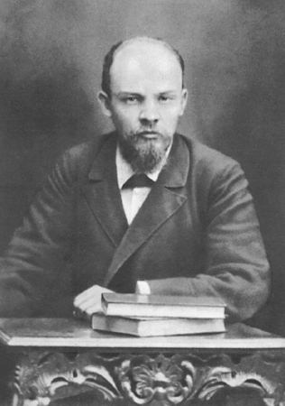 A meeting of the St. Petersburg chapter of the Union of Struggle for the Liberation of the Working Class in February 1897. Lenin. Shortly after the picture was taken the whole group was arrested by the Okhranka